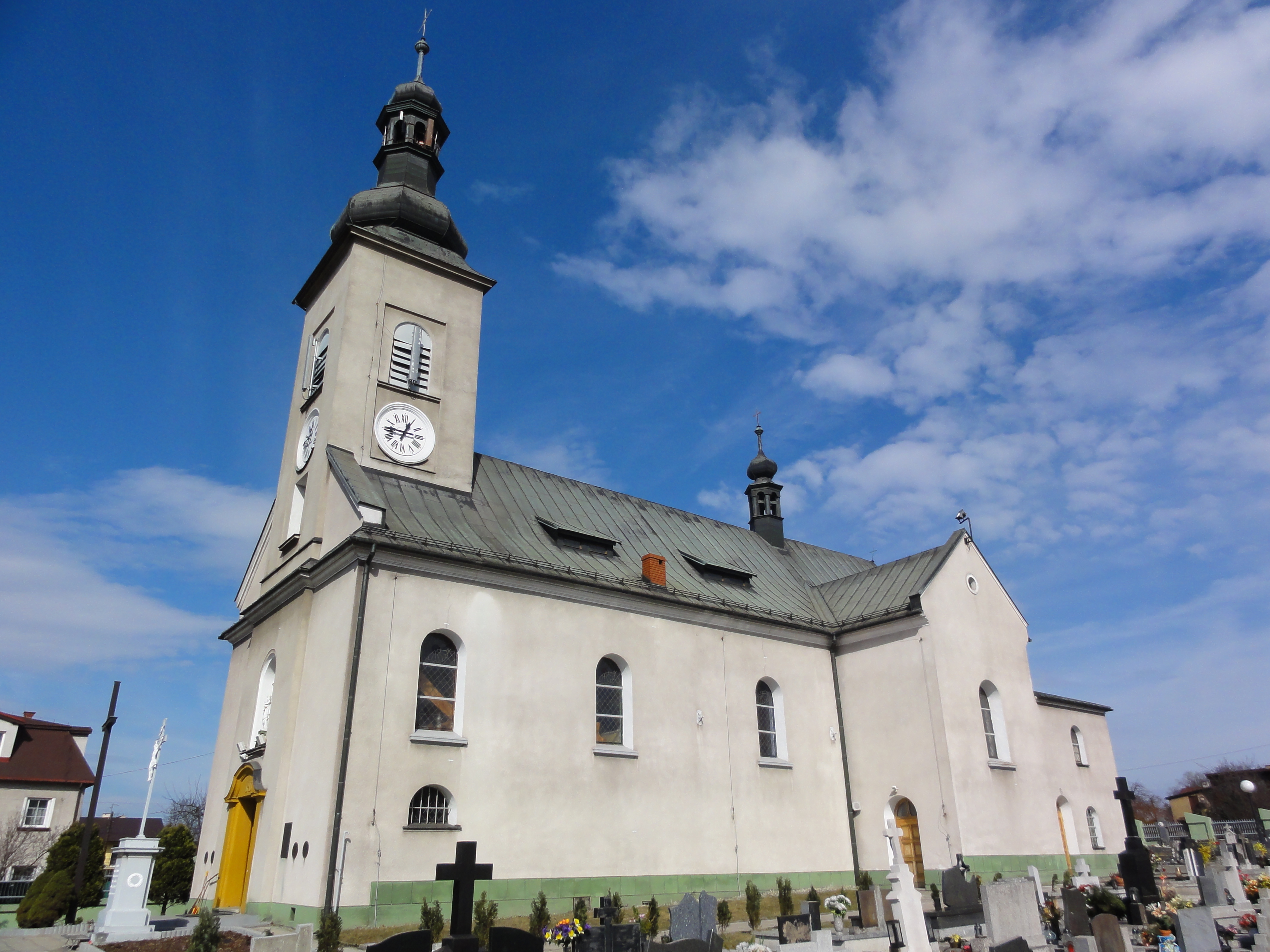 Church of St. John Nepomucen in Pogwizdów